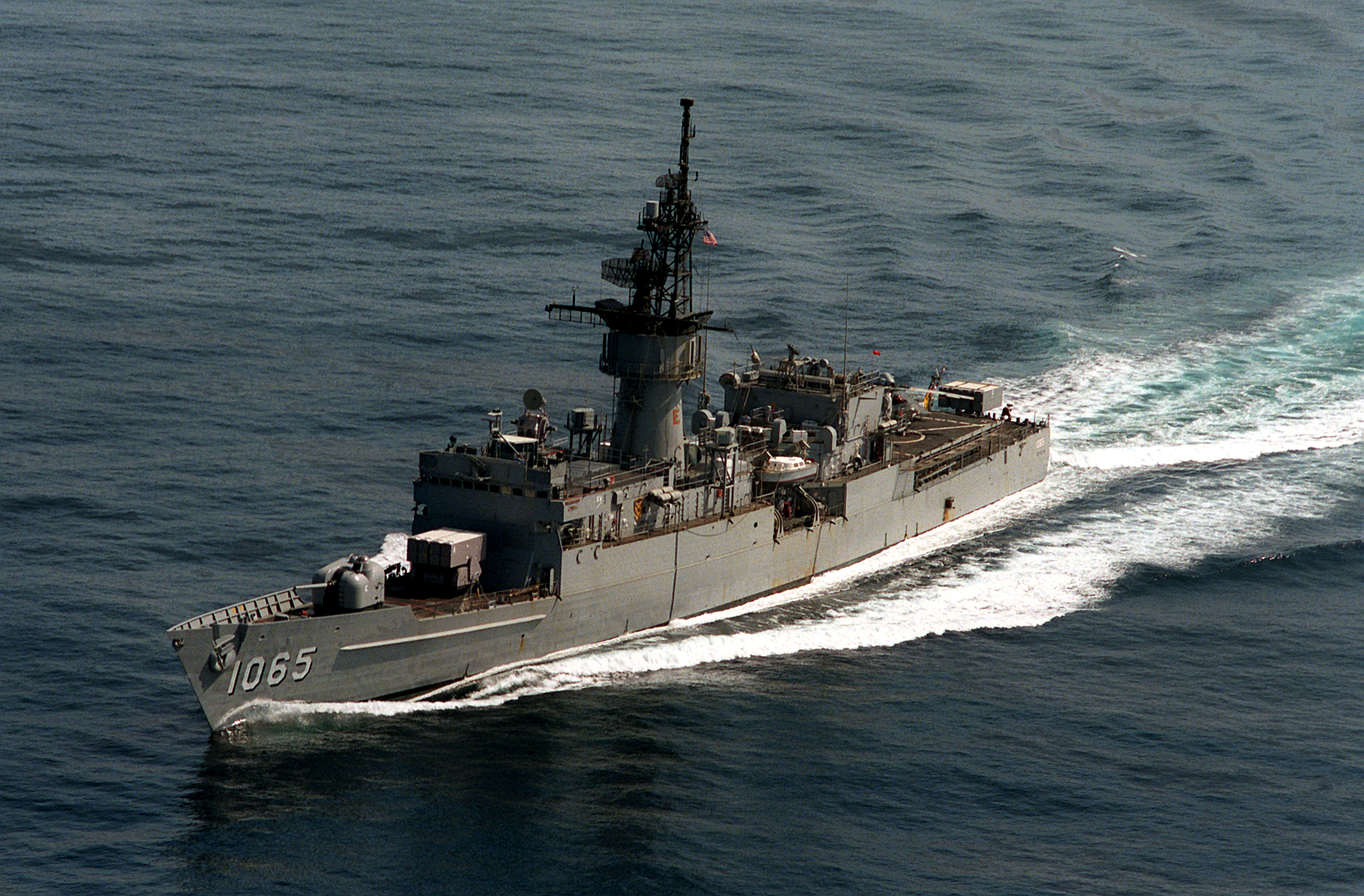 The U.S. Navy frigate USS Stein (FF-1065) underway in the Pacific Ocean on 2 March 1987.